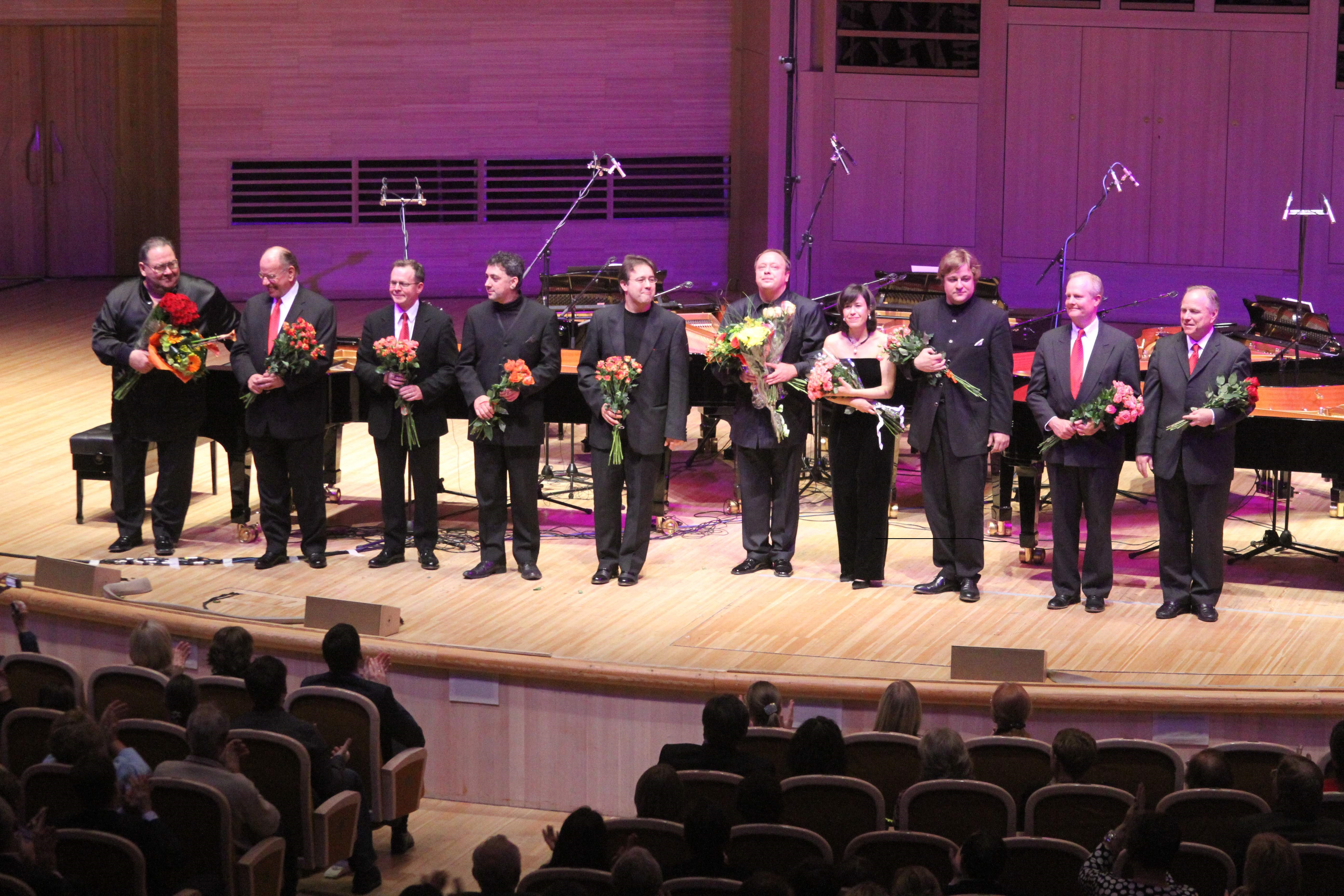 The International Festival of Arts "Art-November" 2010. From left to right: Nikolai Petrov, American Piano Quartet: Paul Pollei, Scott Holden (2nd and 3rd on the left), Robin Hancock, Jeffrey Shumway (9th and 10th on the left), Konstantin Lifshits, Alexey Volodin, Alexander Gindin, Alba Ventura, Peter Laul. The Steinway Parade piano festival. Svetlanov Hall, Moscow International House of Music, Moscow, Russian Federation